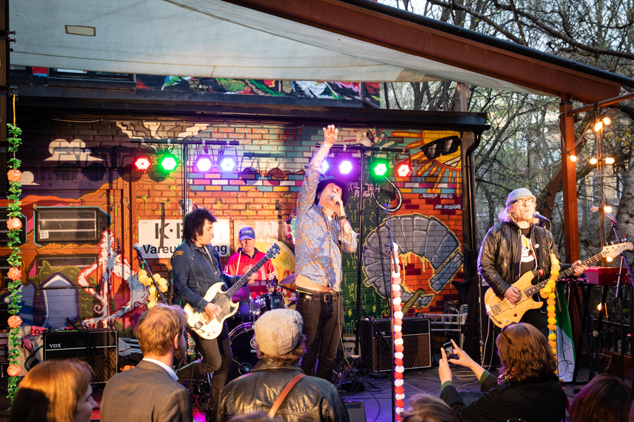 Valentourettes at Blå. The concert took place on 29. April 2018 in Oslo. Lineup:Hans Petter Baarli (guitar)Runar Johannessen (drums)Petter Pogo (guitar)Tarjei Foshaug (vocal)